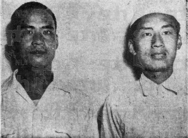 Mohammad Chong from Beijing, Osman Chau from Anhwei